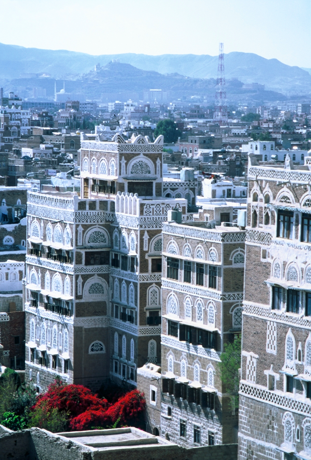 Buildings in the Old City of Sanaa.